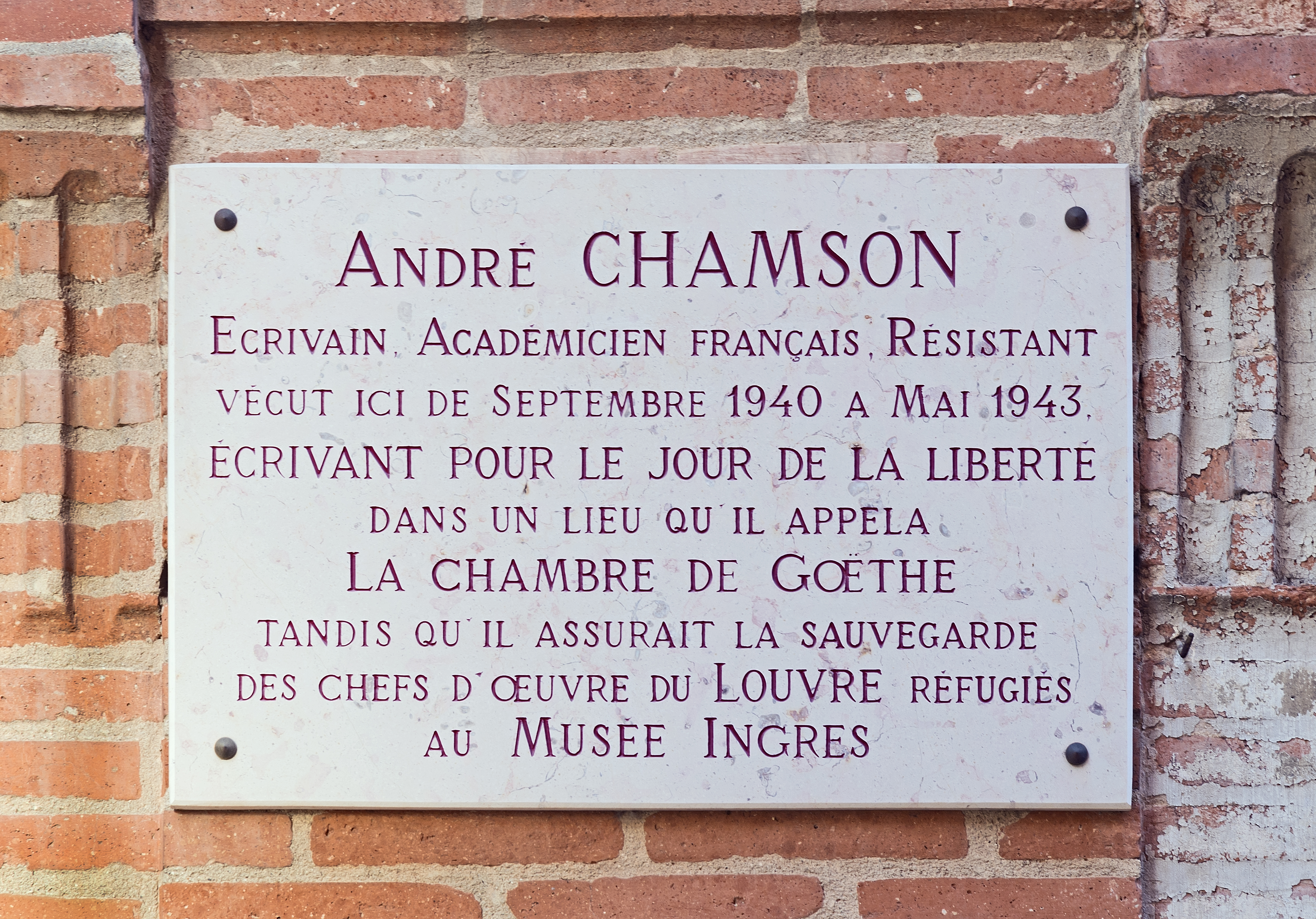 Montauban, Tarn-et-Garonne, France. Commemorative plaque for Academician Andre Chamson, 30, « rue de la comédie ».